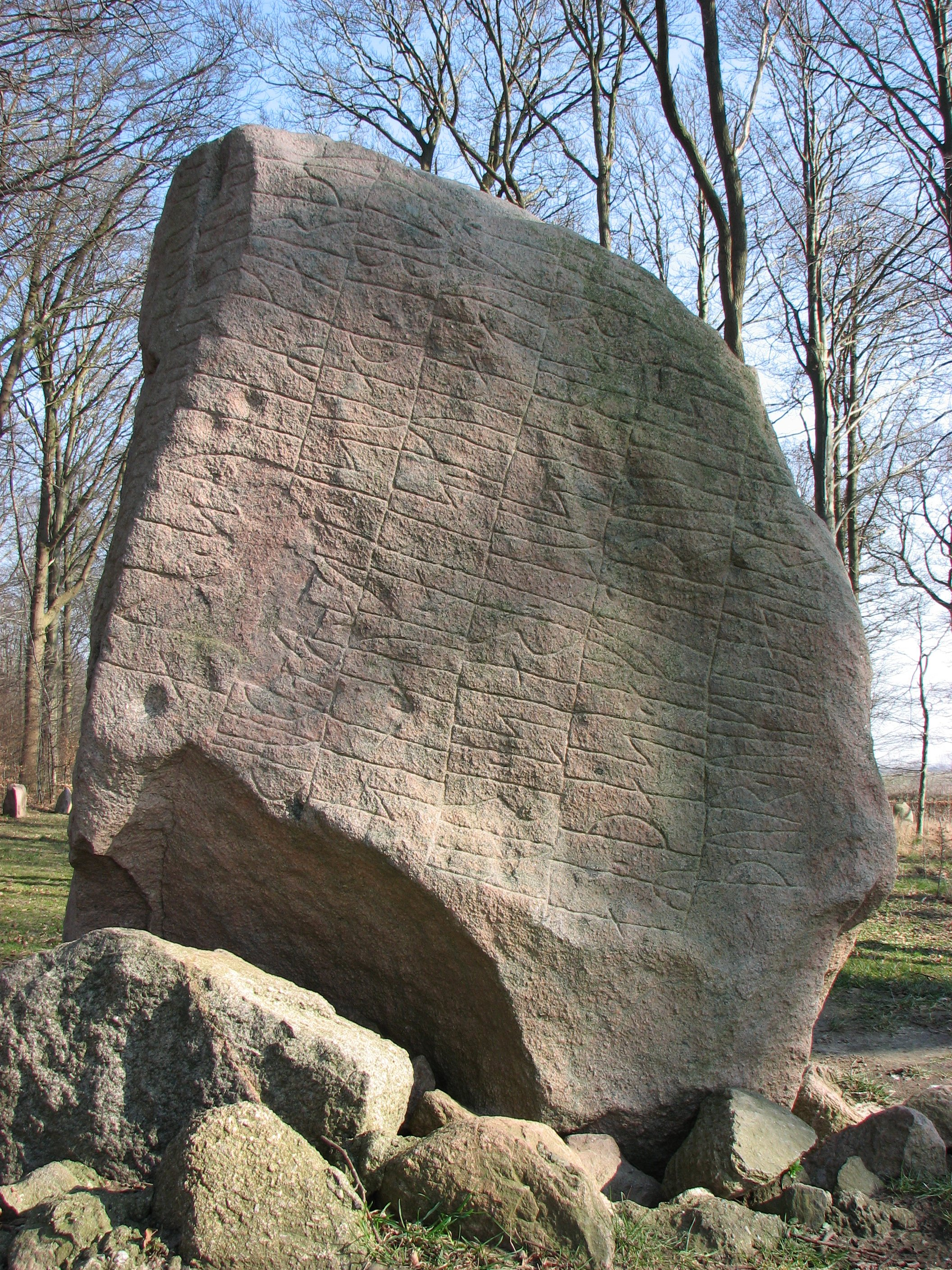 The Glavendrup runestone on northern Funen in Denmark.